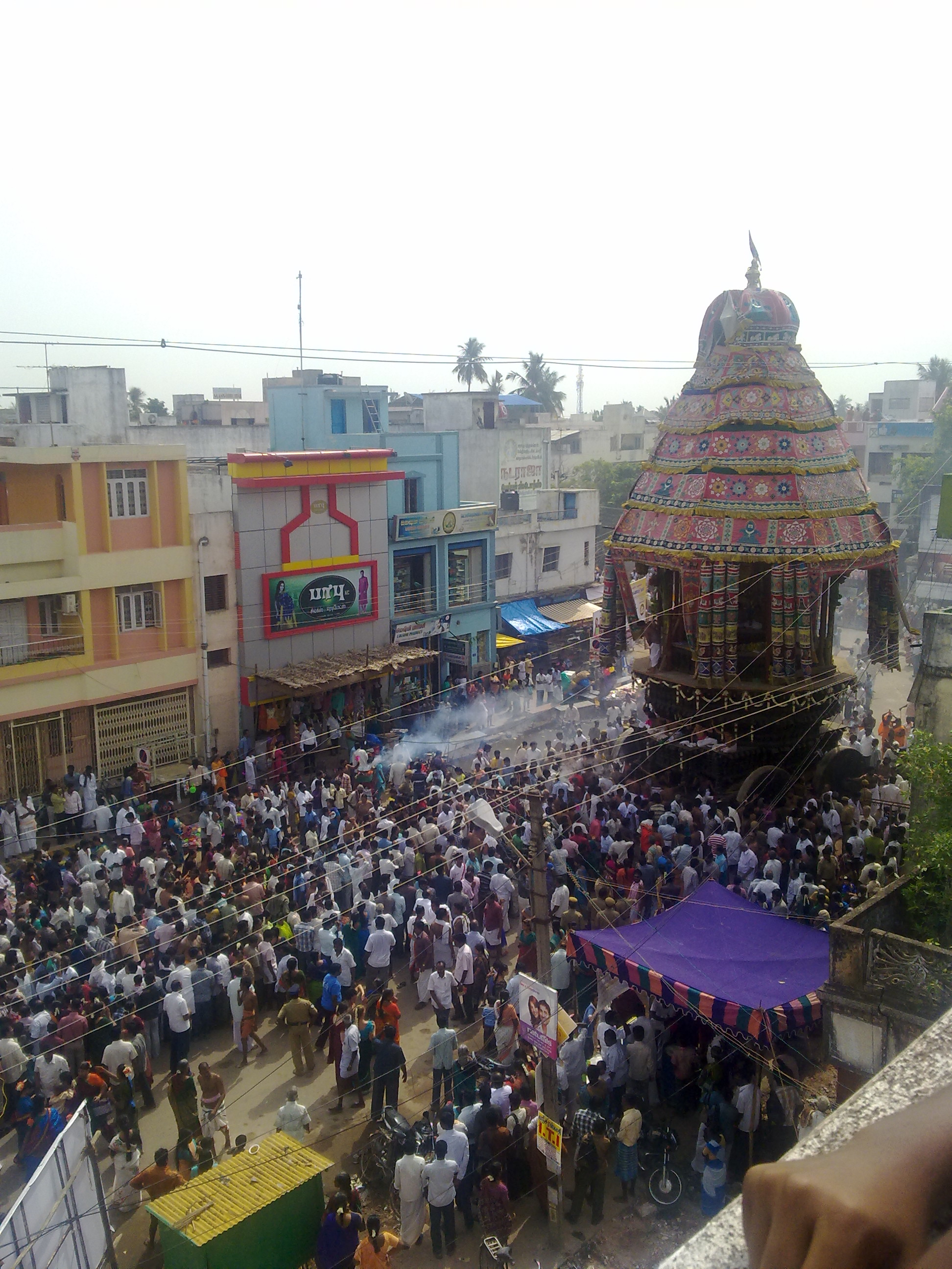 Nataraja's Temple car during car festival in 2011